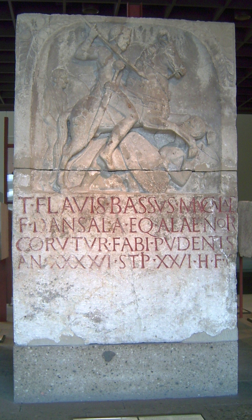 Tomb for Titus Flavius Bassus of the roman cavalery, CIL XIII 8308. Displayed in the Römisch-Germanisches Museum in Cologne, Germany. For other images, see gallery Römisch-Germanisches Museum.